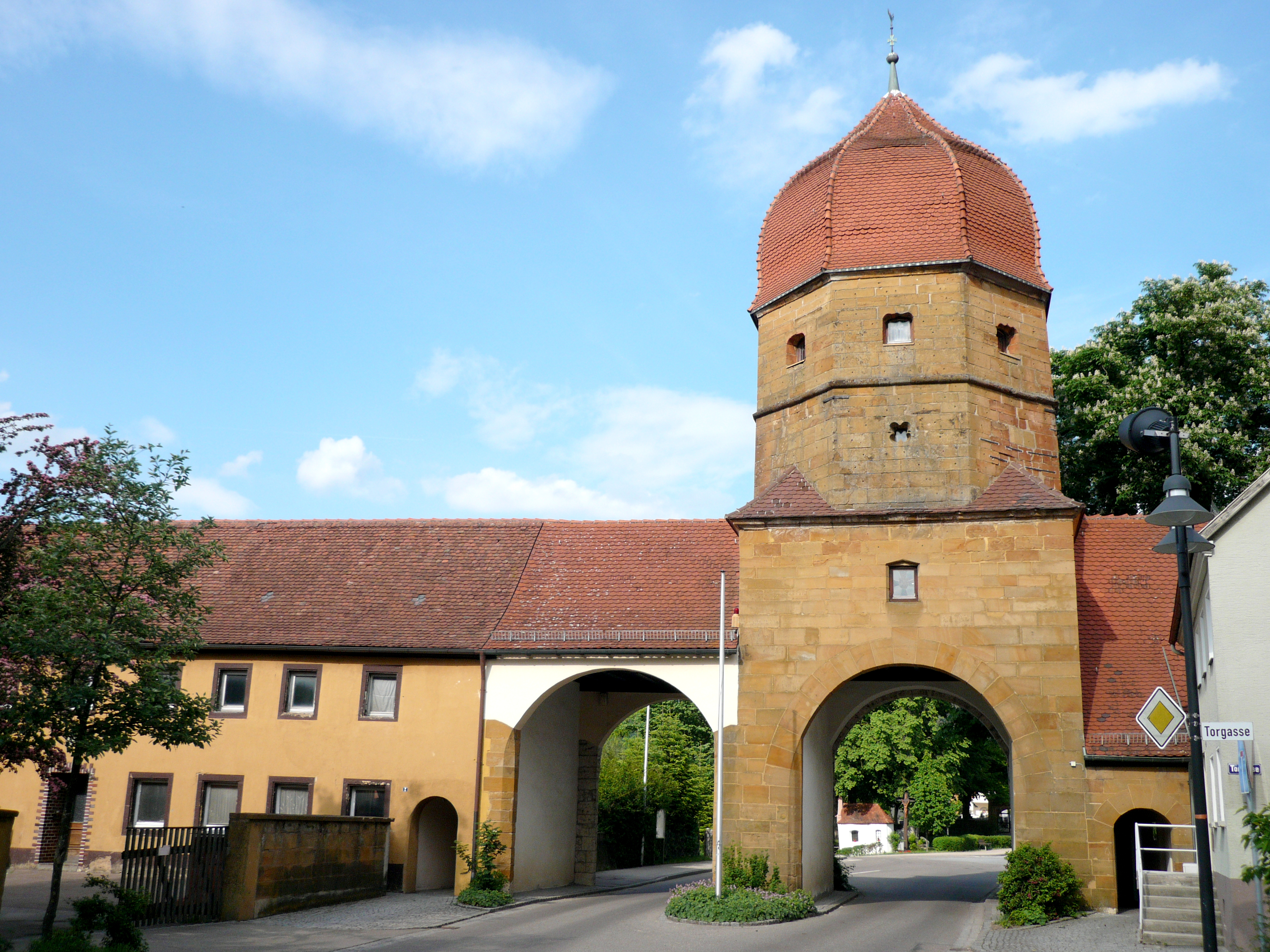 Lauchheim, Oberes Tor